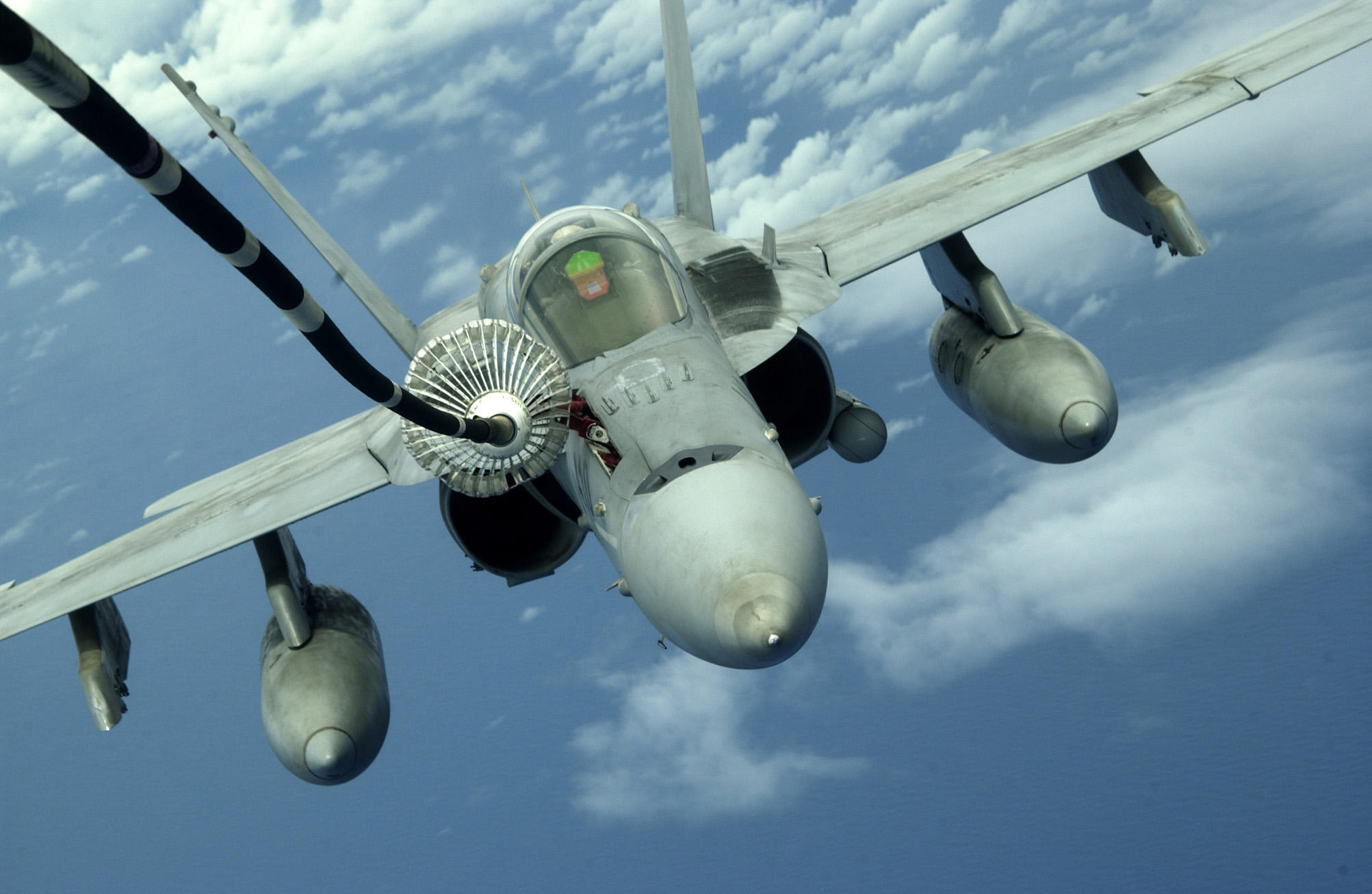 A United States Marine Corp F/A-18D from Marine Corps Air Station Iwakuni, Japan, takes fuel over the Pacific Ocean from a KC-10 Extender from the 2nd Air Refueling Squadron, McGuire AFB, NJ, during Exercise Valiant Shield, 20 June, 2006.